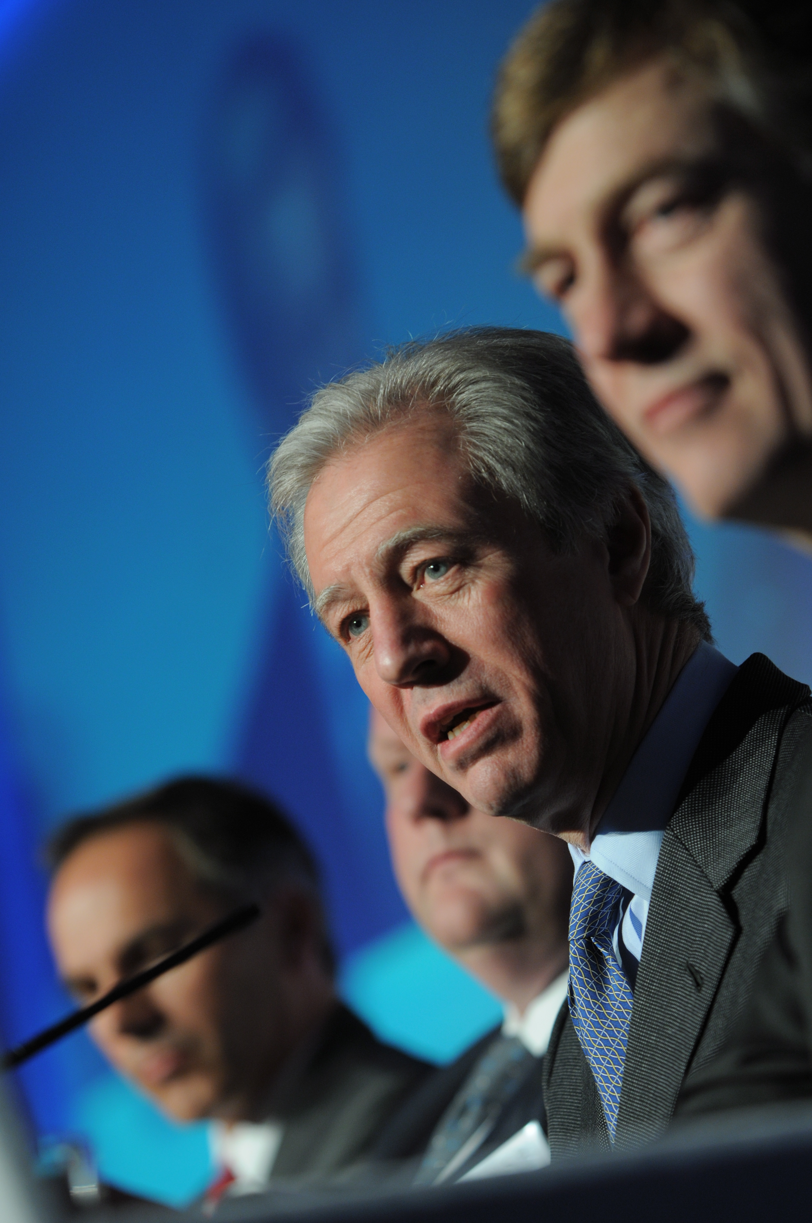 Marcus Agius, British financier and businessman and Chairman of Barclays, speaking at the Confederation of British Industry's Climate Change Summit 2008 at The Royal Lancaster Hotel, London.